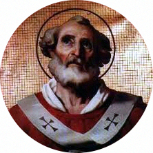 A painting of Pope Hormisdas, which was painted before 1923